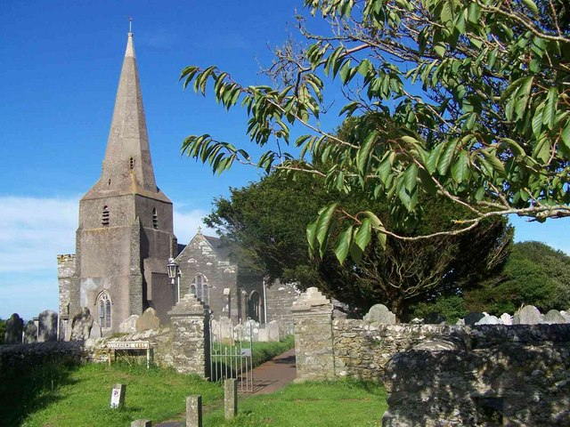 All Saints parish church, Malborough, Devon, seen from south-southeast